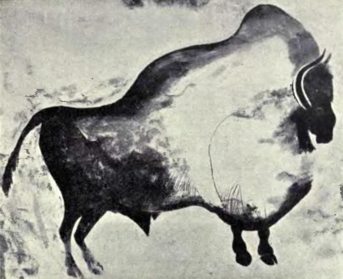 FIG. I. Bison painted in Ochre. FIG. 2. Reindeer partly painted and partly incised. Specimens of Painted Animals from the Cave of Font-de-Gaume (1/1). (After MM. Capitan and Breuil.) [To face p. 224.